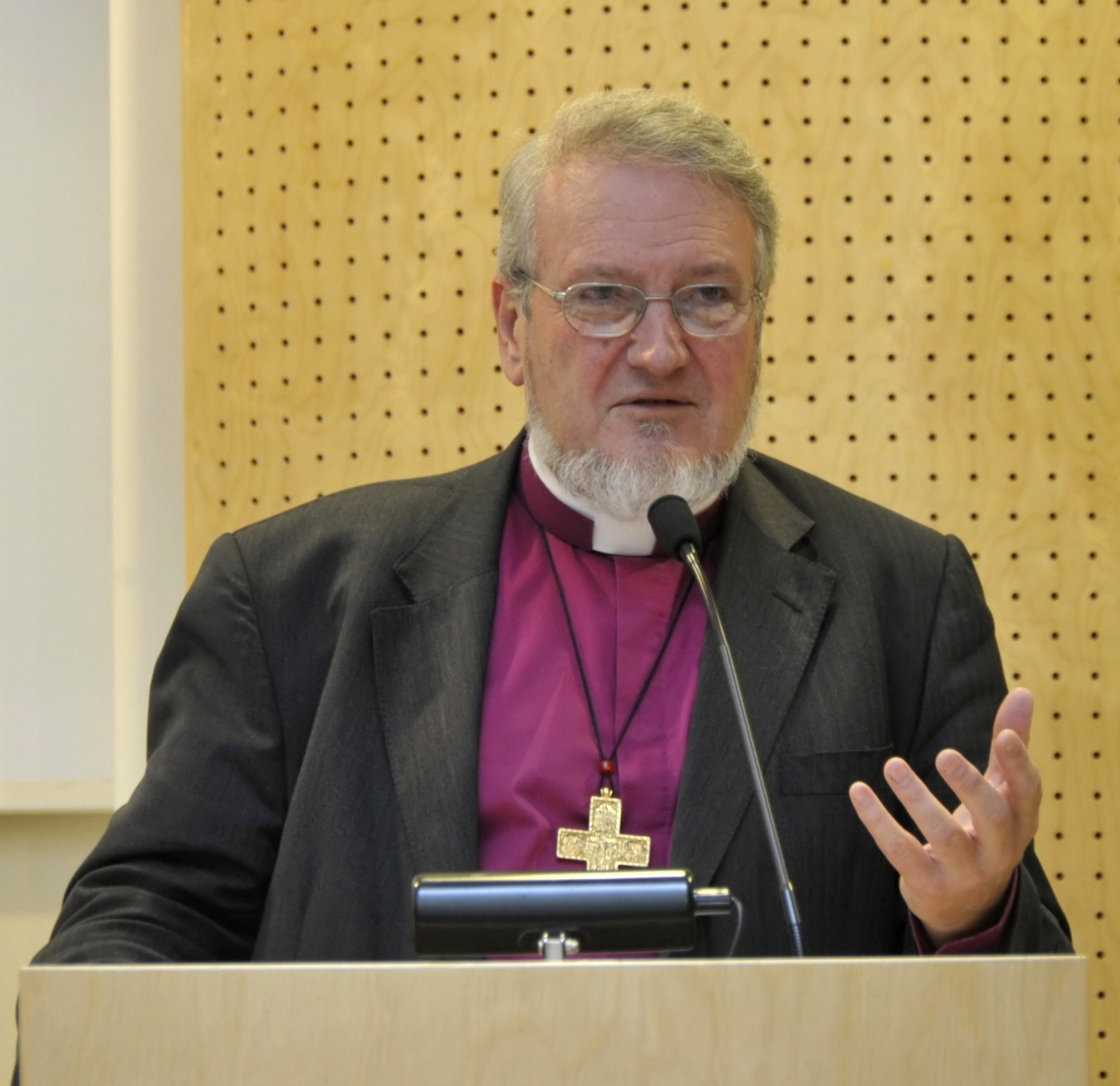 The Right Revd Geoffrey Rowell, Bishop in Europe is giving a lecture at the The Revd Professor Carsten Peter Thiede in memoriam symposium at the Stefanisaal of the Churhaus, Stephansplatz 3, Wien 1, Austria.